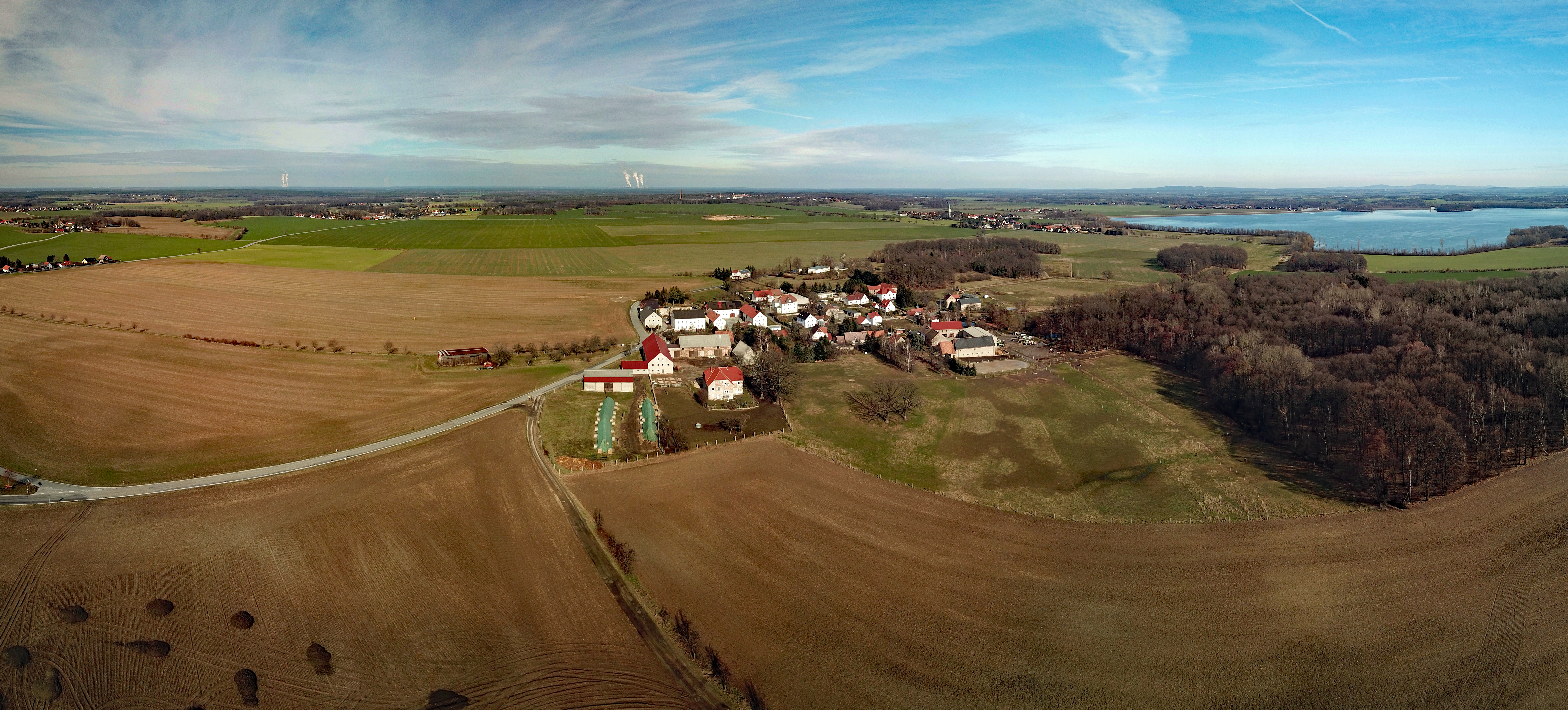 Kronförstchen, Großdubrau, Saxony, Germany Hornjoserbsce: Powětrowy wobraz Křiweje Boršće z Budyskim spjatym jězorom w pozadku